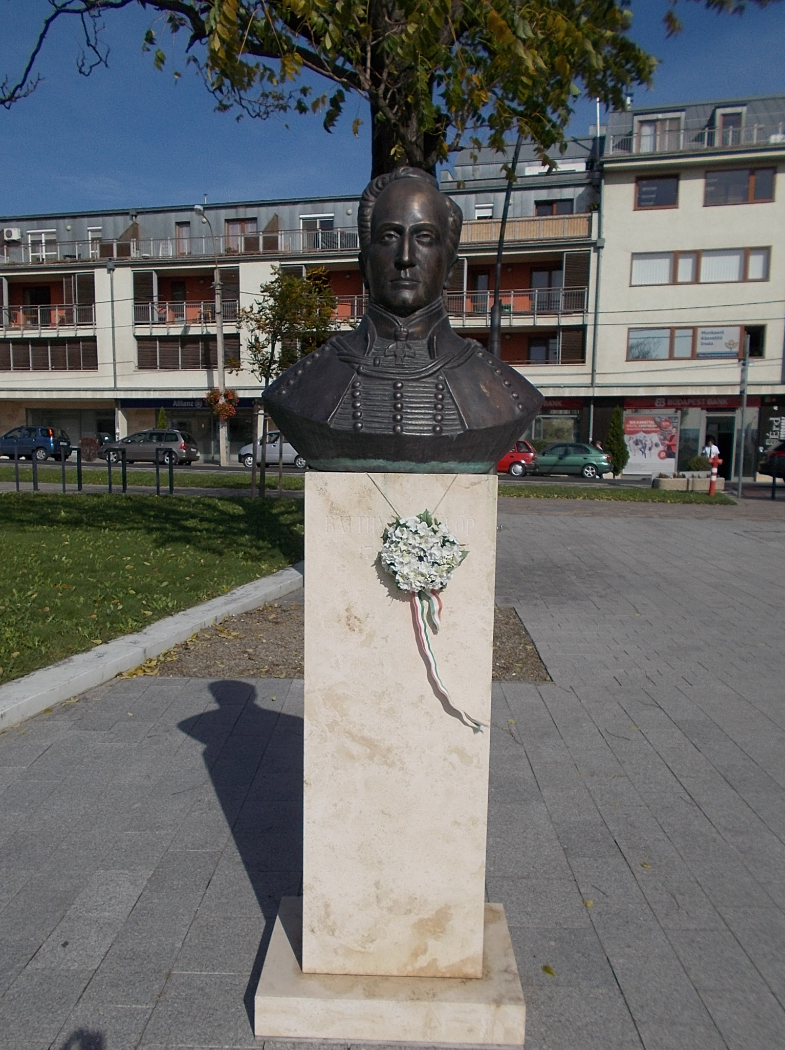 Colonel, Prince Fülöp Batthyány limestone bronze bust. - Alsó street, Érd, Pest County, Hungary